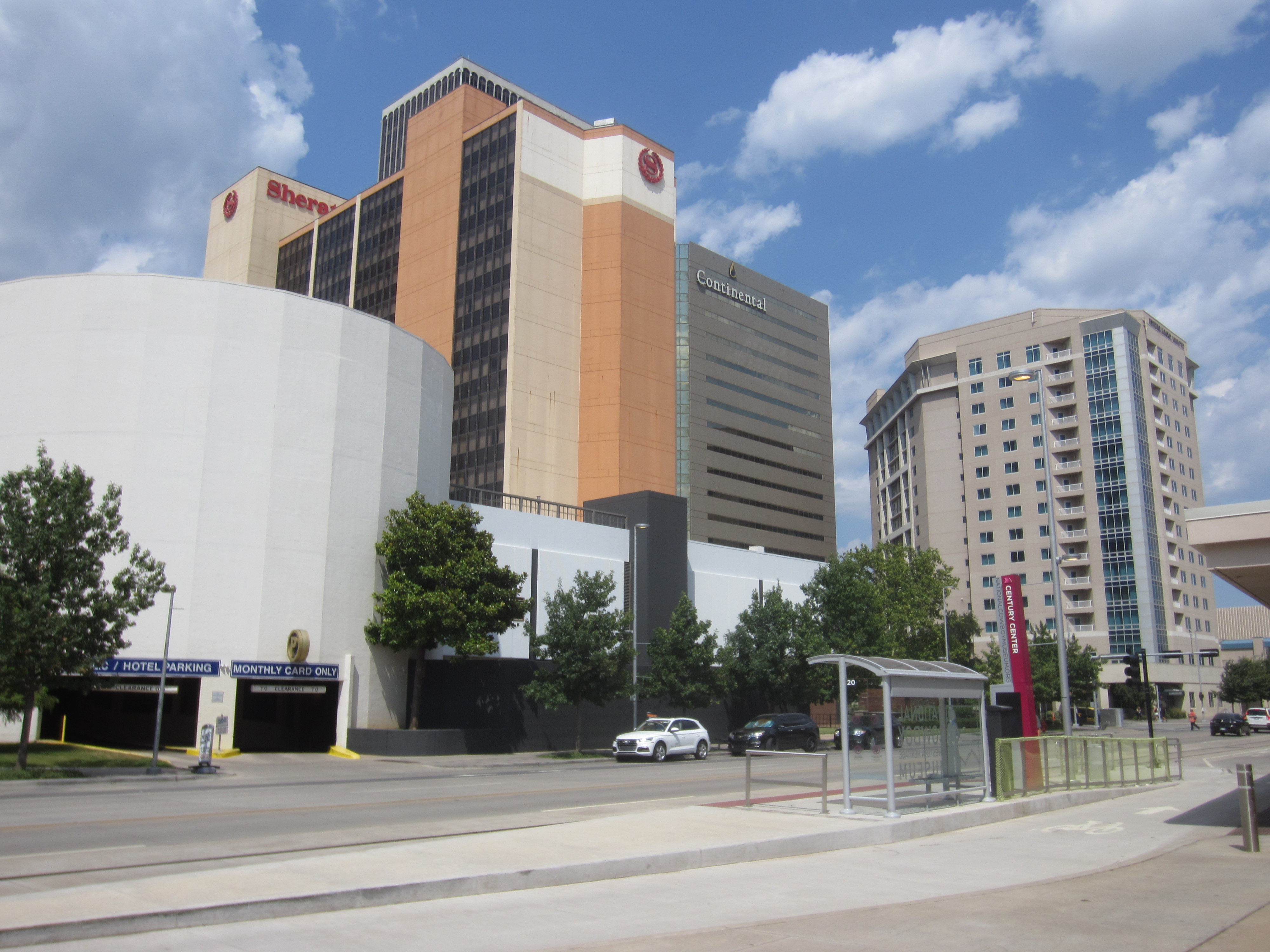 Downtown Oklahoma City: Looking northeast across Sheridan Avenue east of Robinson Avenue. In the foreground is a stop for the 2018-opened Oklahoma City Streetcar system (specifically the Century Center stop), on a section of route lacking overhead trolley wires. In the background are the Sheraton Hotel, the Continental Oil Center and the Renaissance Hotel.